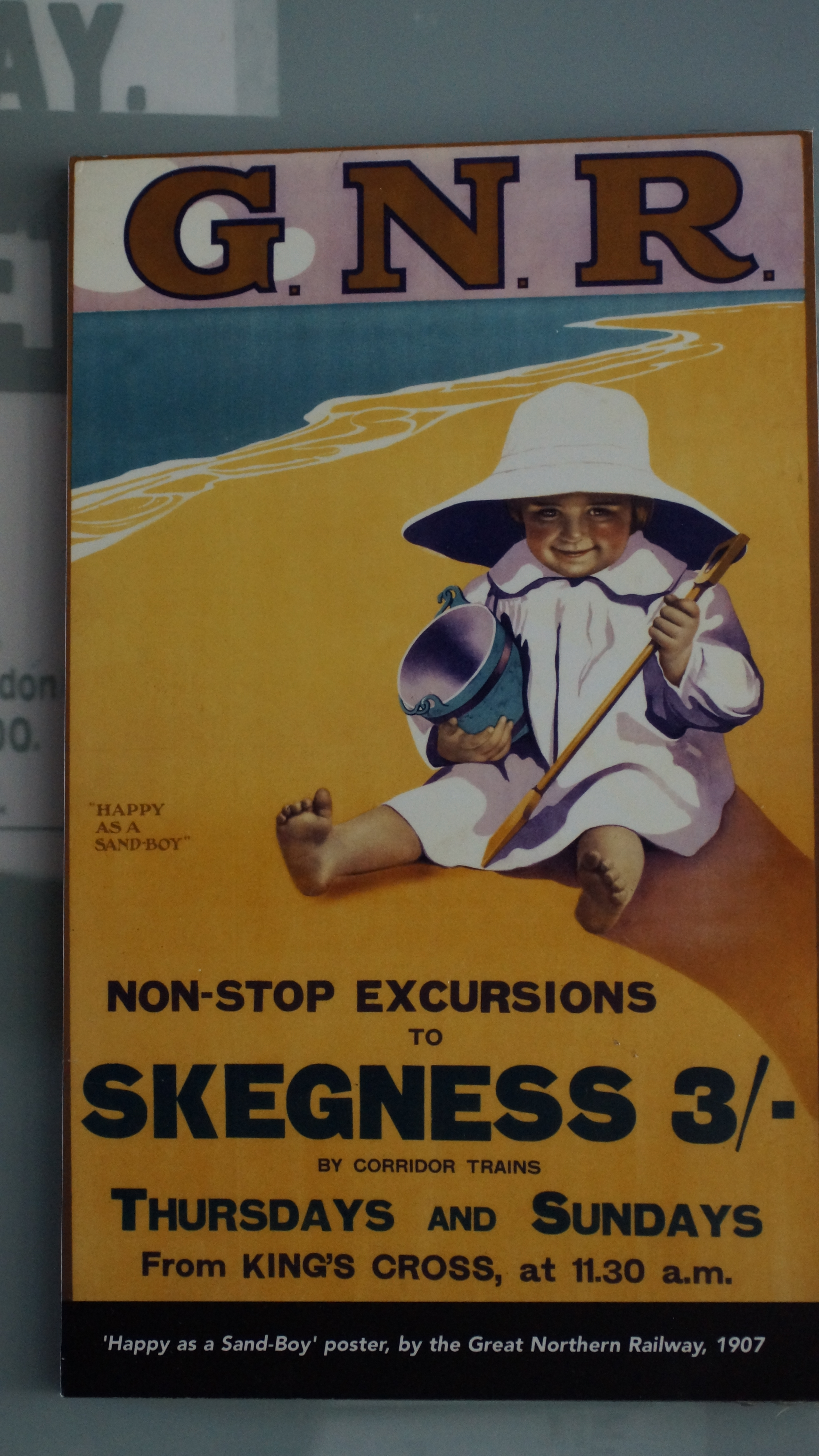 Images from ThinkTank by Sasha Taylor